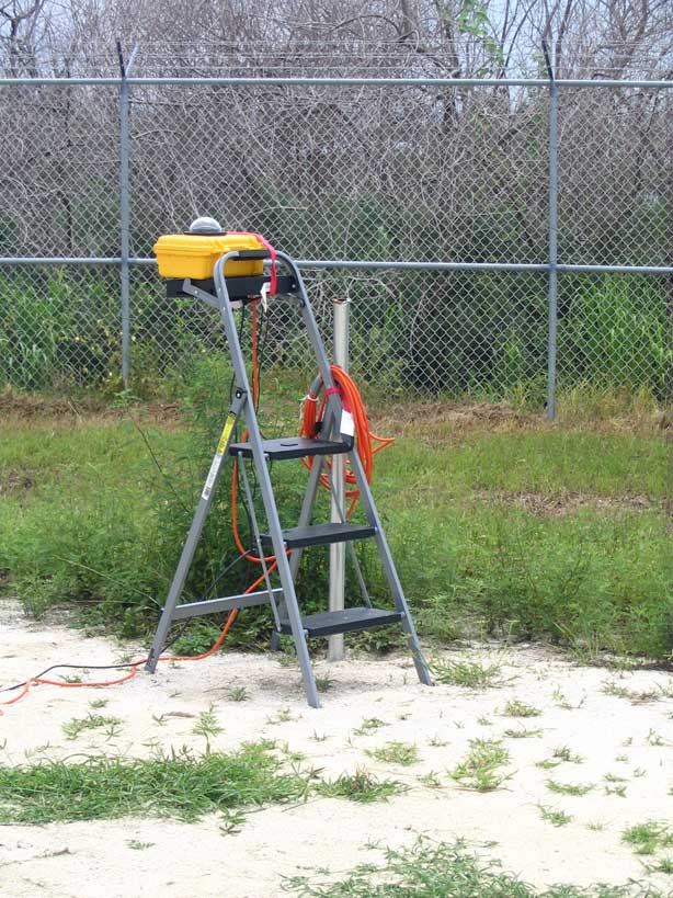 A simple Whole sky camera constructed by Dr P. J. Flatau at Scripps Institution of Oceanography, University of California. Deployed north of Kennedy Space Center, Florida, USA, close to the MCR radar on July 24, 2009.